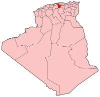 Map of Algeria showing Bouira province.